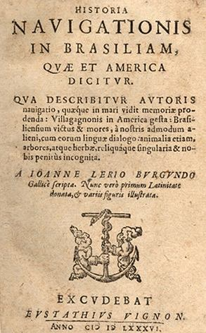 Jean de Léry. Historia navigationis in Brasiliam... Geneva, 1586. LAL (rare) 981 (910.4) L621hY Latin American Library Tulane University fonte